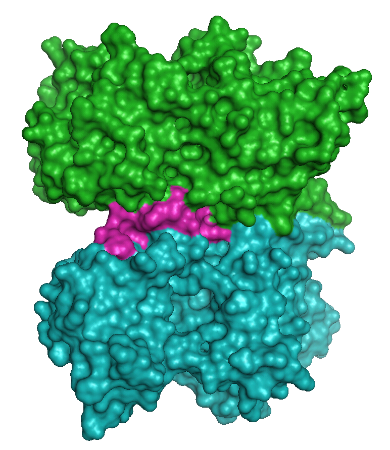 3d structure of natriuretic peptide receptor-c complexed with atrial natriuretic peptide (ANP) from PDB 1YK0. Ref.: X.L.He et al. (2006). Structural determinants of natriuretic peptide receptor specificity and degeneracy.. J Mol Biol, 361, 698-714. PMID 16870210 [